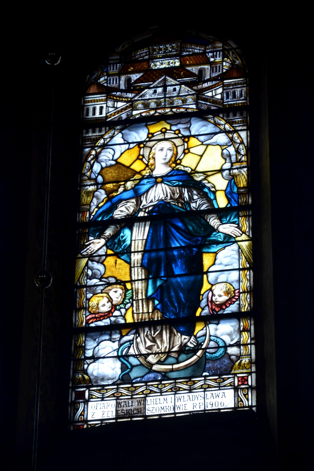 Church of the Transfiguration in Sanok